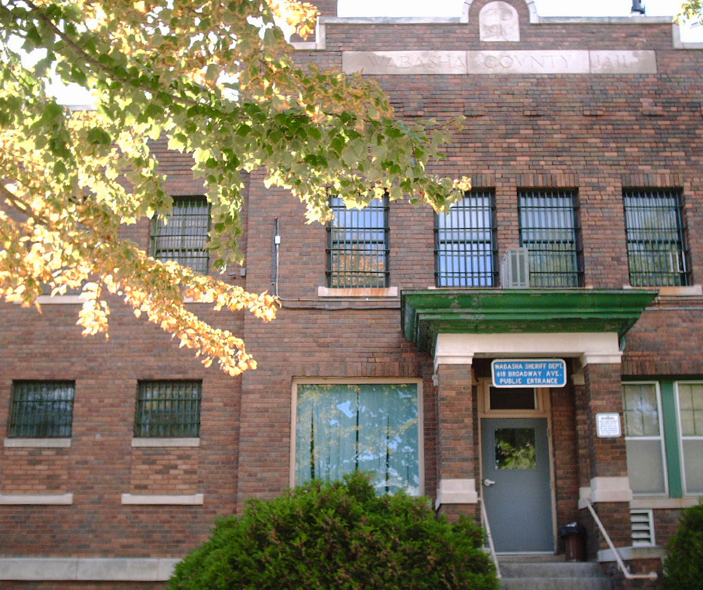 1916 Wabasha County Jail Building in Wabasha, Minnesota, United States. Demolished 2011.